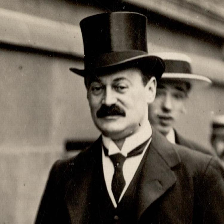 twl 2002 583 Arthur Marshall (right) and another man leaving Bow Street Court